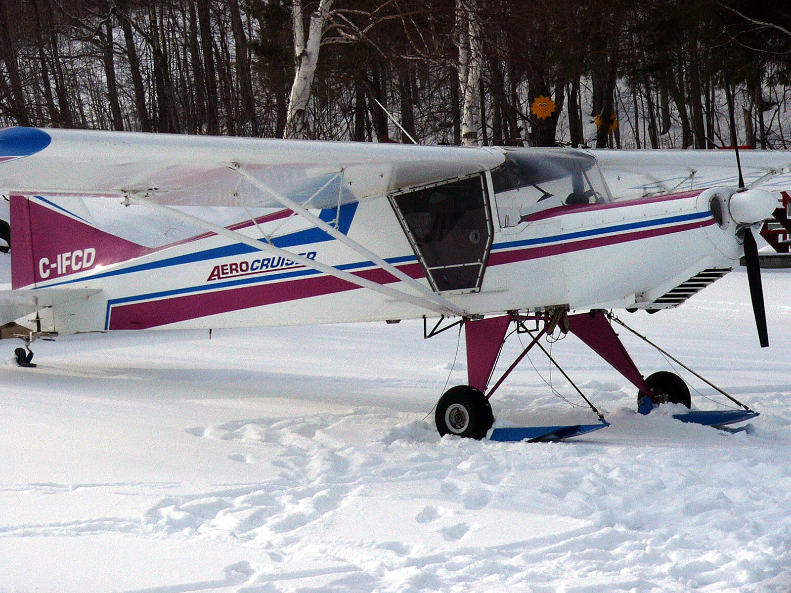 Norman Dube Aerocrusier at Montebello, QC, Canada